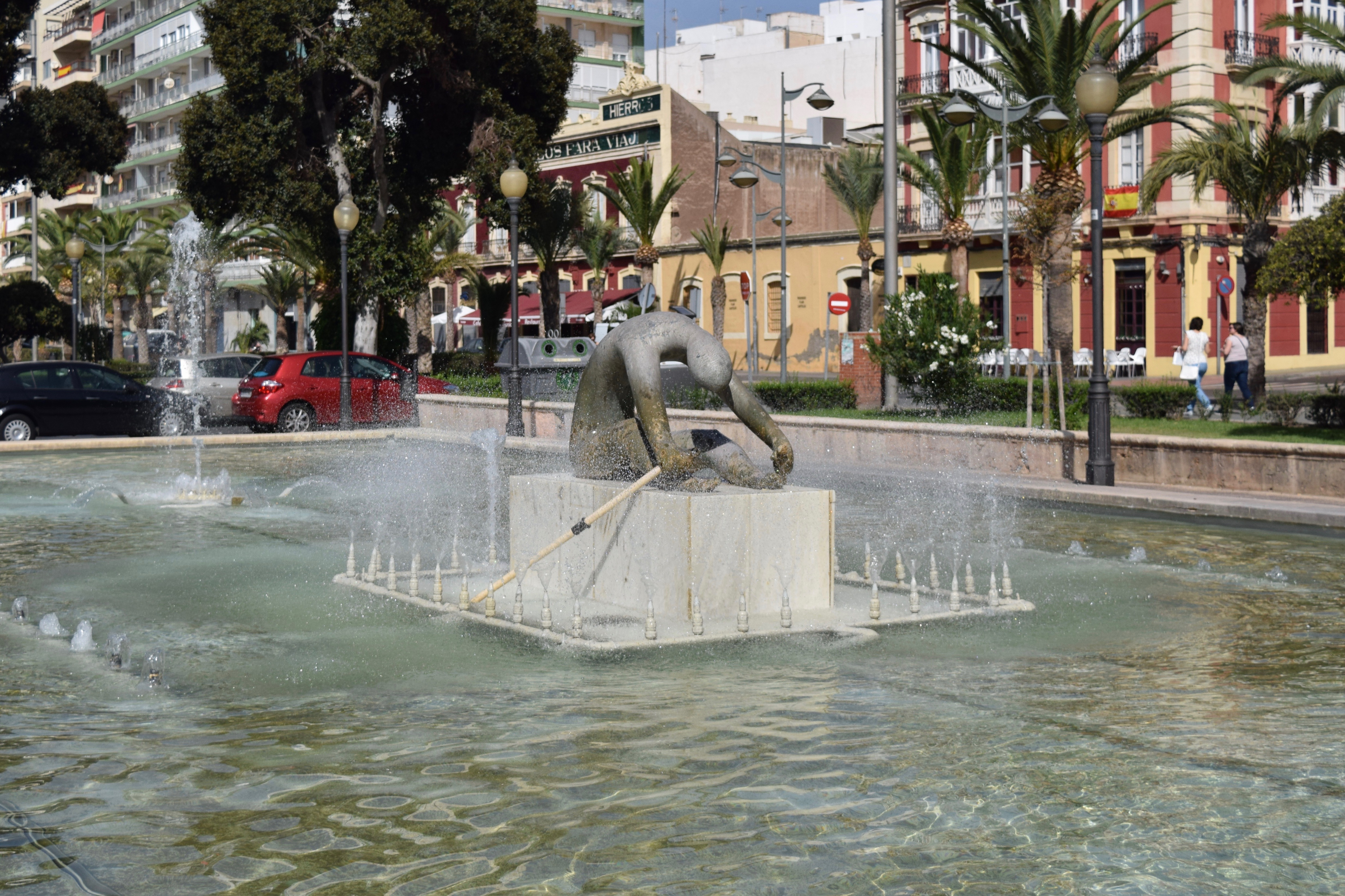 Fuente del remador en el parque Nicolás Salmerón (Almería)